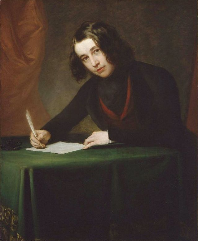 Portrait - Charles Dickens